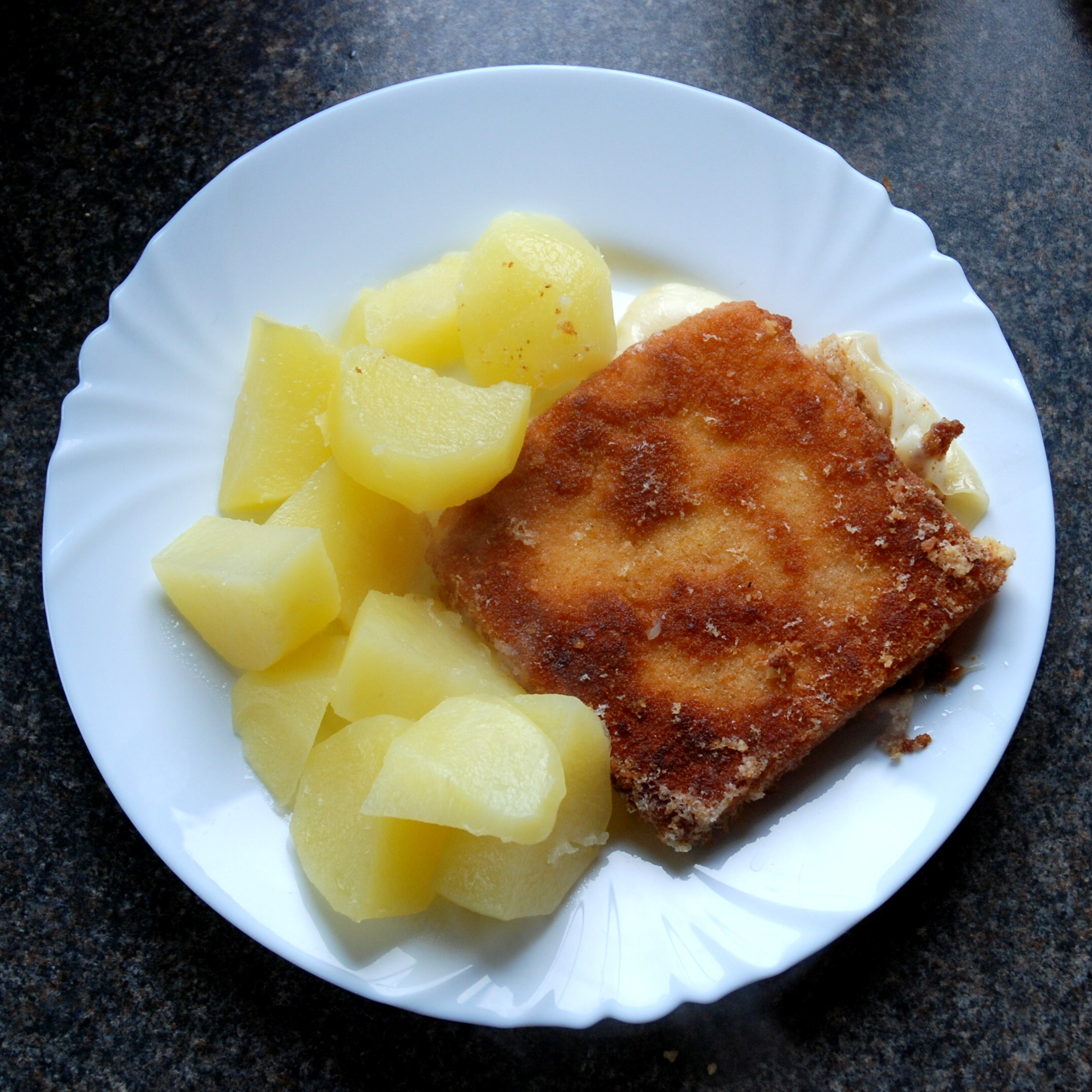 Fried cheese and potatoes